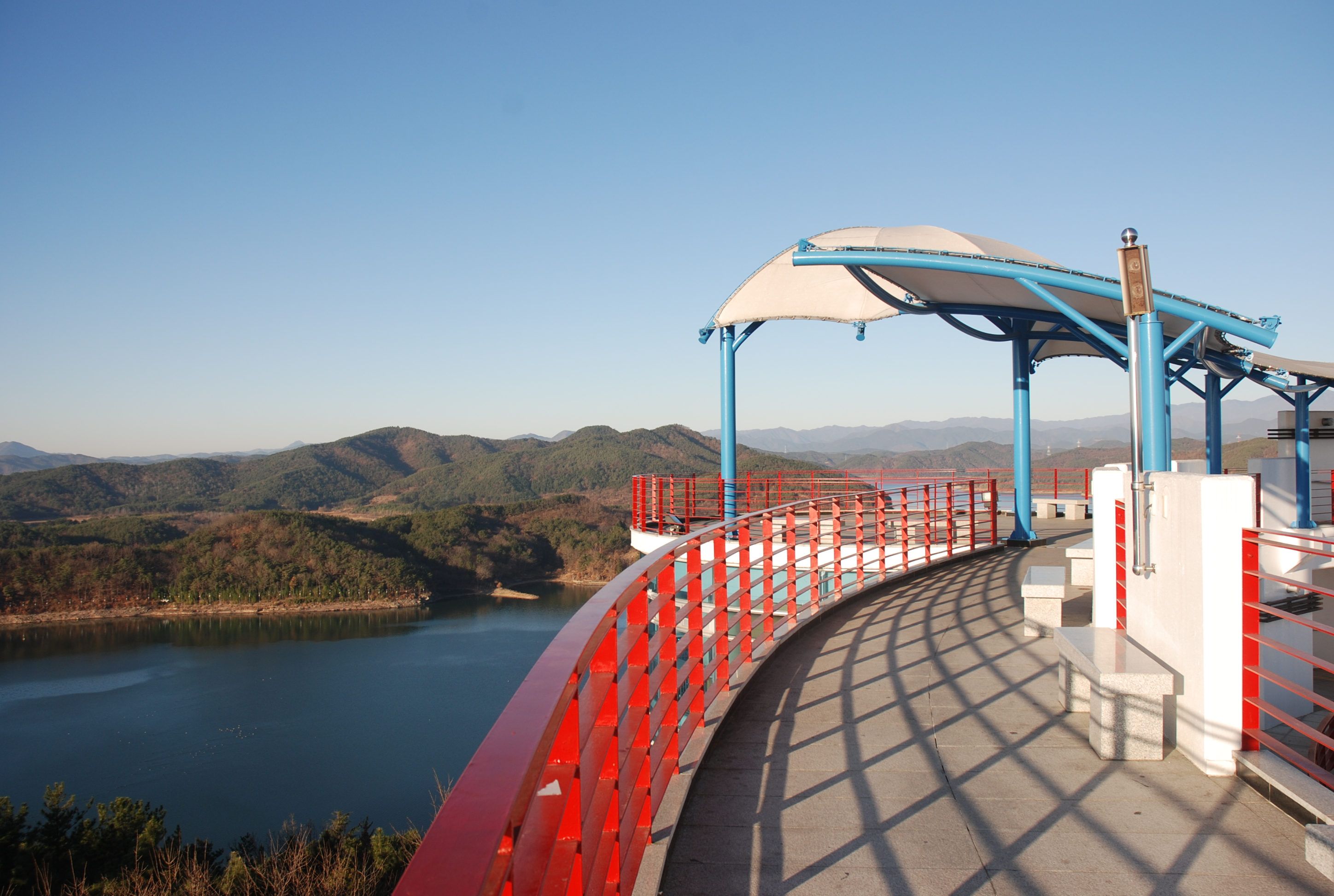 Jinju Jinyang lake viewpoint